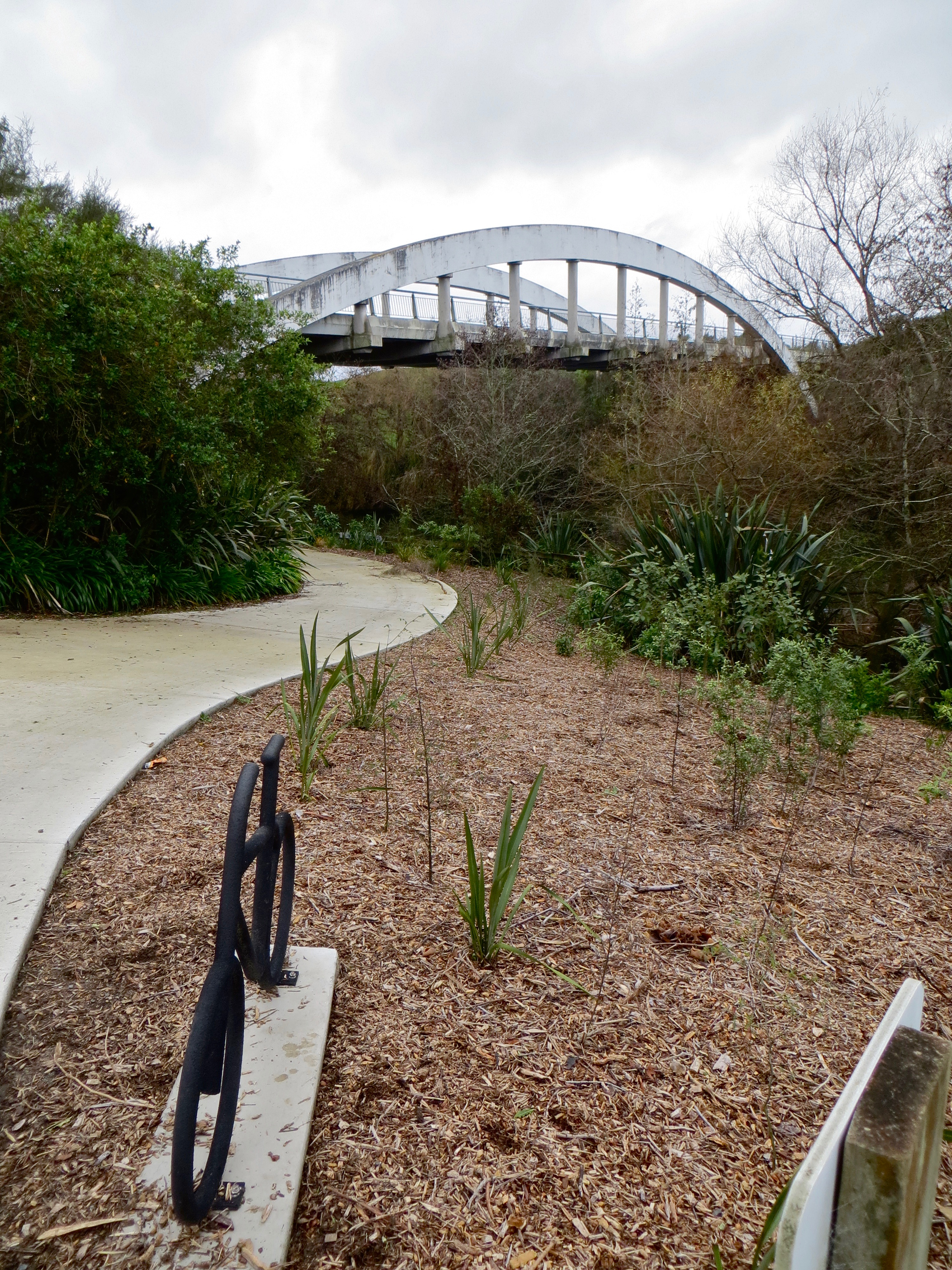 The cycleway was extended to link up with Hamilton's riverside path in 2014. The 2001 bridge replaced a bridge built in 1924.